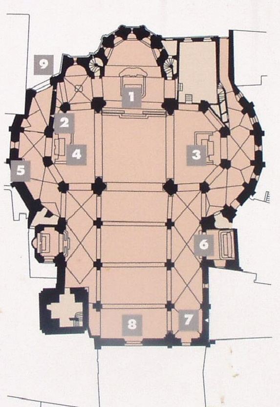 Plan of San Fedele basilica, Como (Italy).